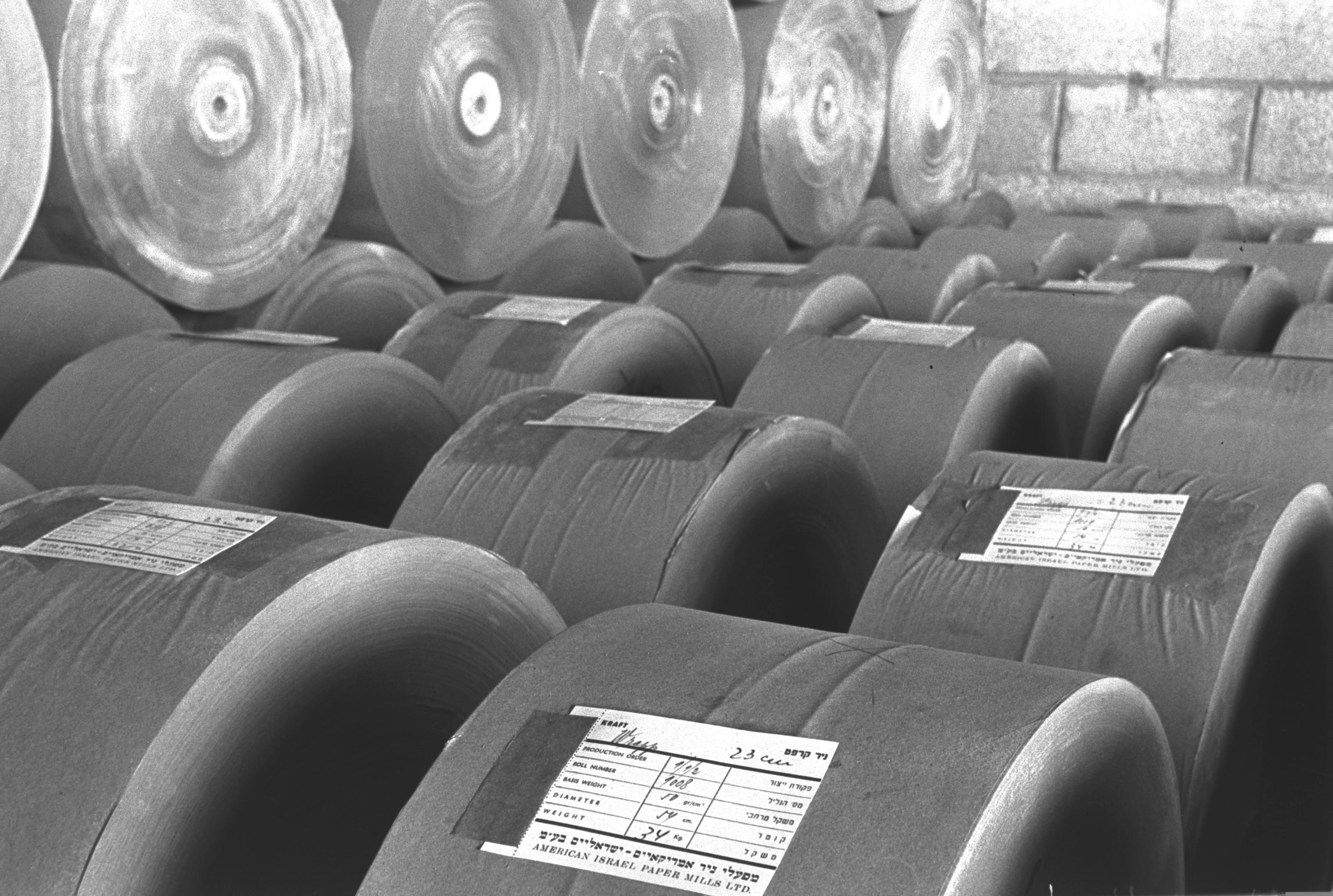 Paper ready for export at The American Israeli Paper Mill in Hadera.